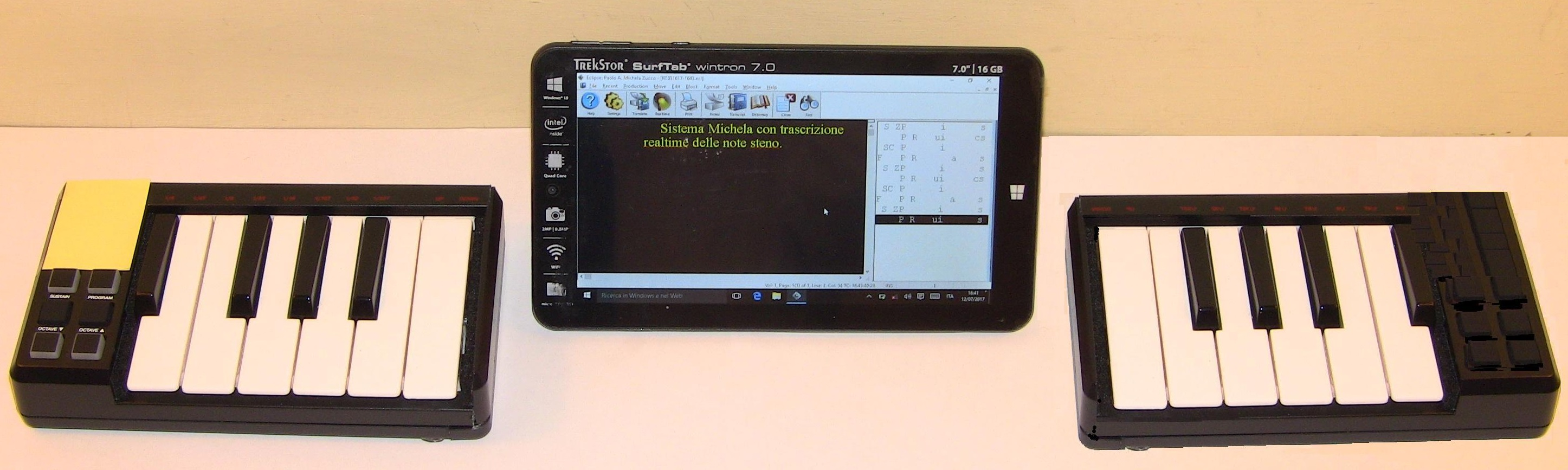 Michela stenotype split keyboard